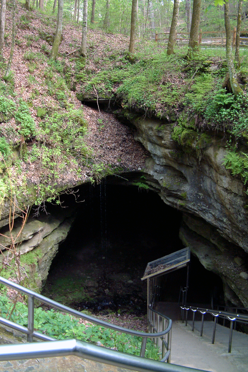 The historic entrance to Mammoth Cave, near the Visitors Center in Mammoth Cave National Park.